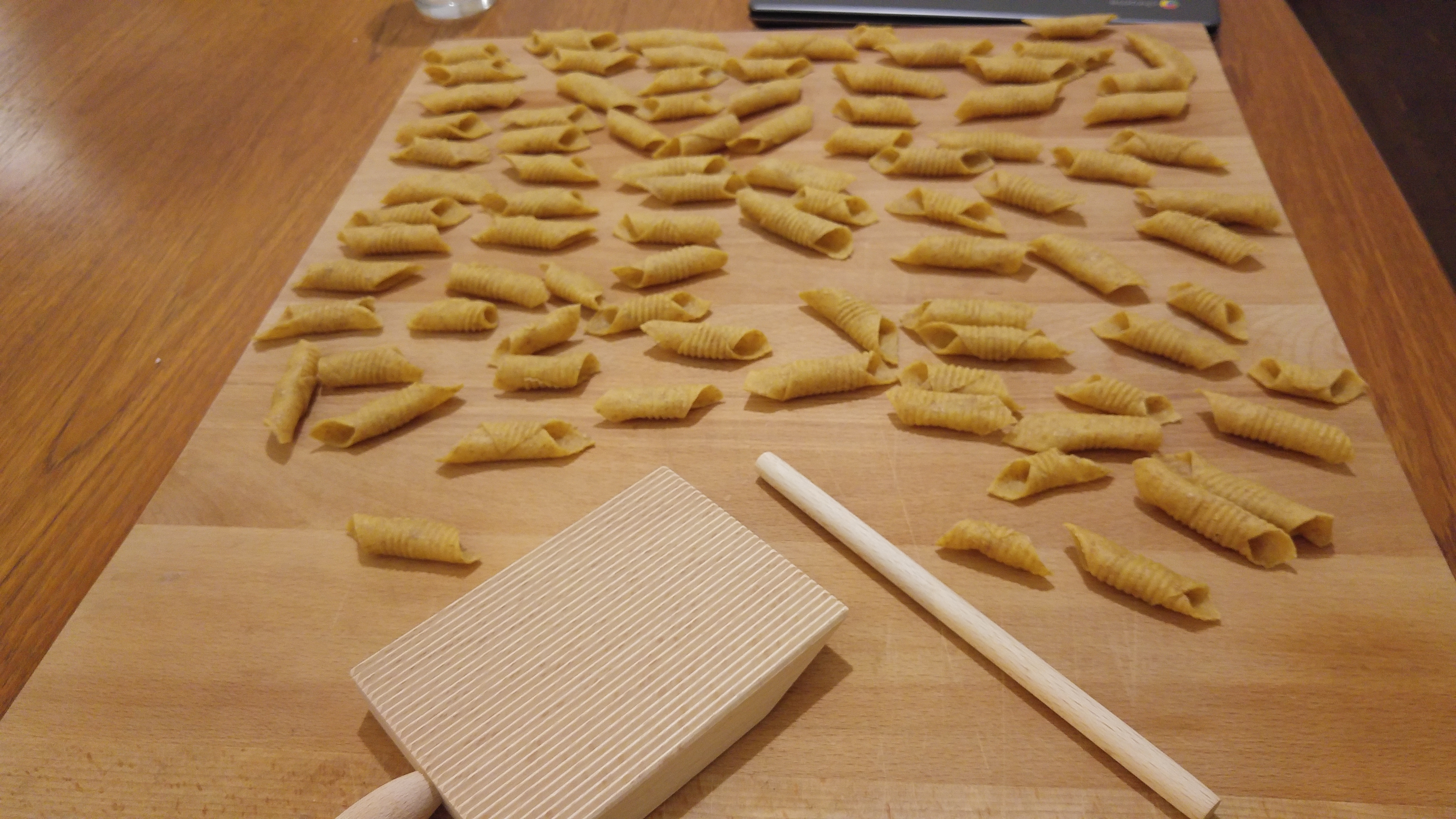 Basically how to make penne in a time consuming, more expensive way.